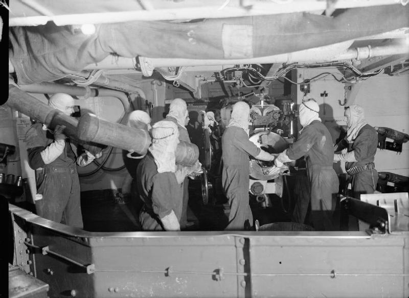 IWM caption : One of the 6 inch guns on board battleship HMS MALAYA. The crew are wearing anti flash gear, some are operating the gun or ramming home a shell whilst others supply it with further ammunition. Propellant charges for the guns are contained within the card and leather 'Clarkson' cases which are over two sailors' shoulders.